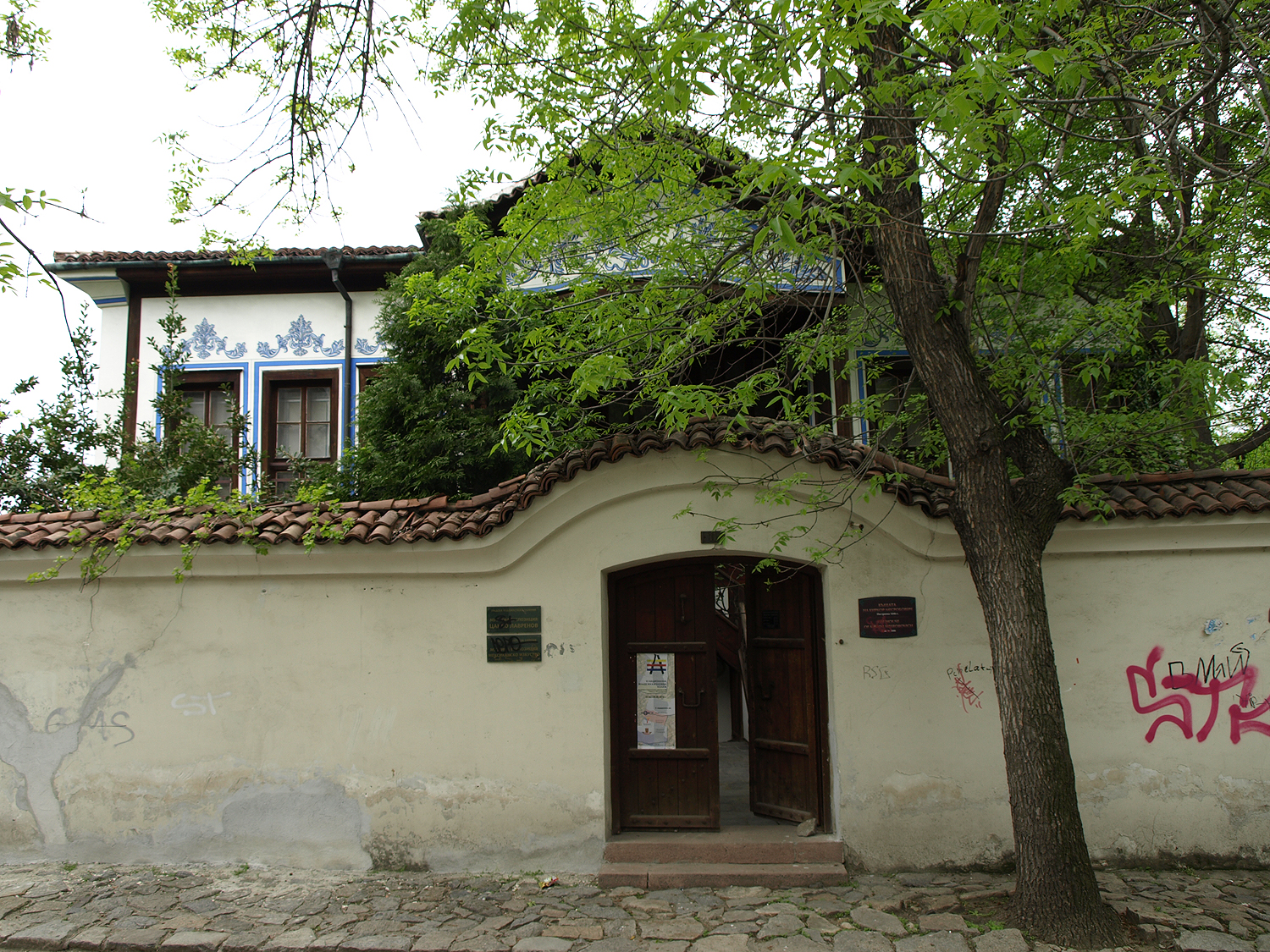 Kirkor Mesrobovich house, built in 1846, now Tsanko Lavrenov and Mexican Art Museum exhibitions